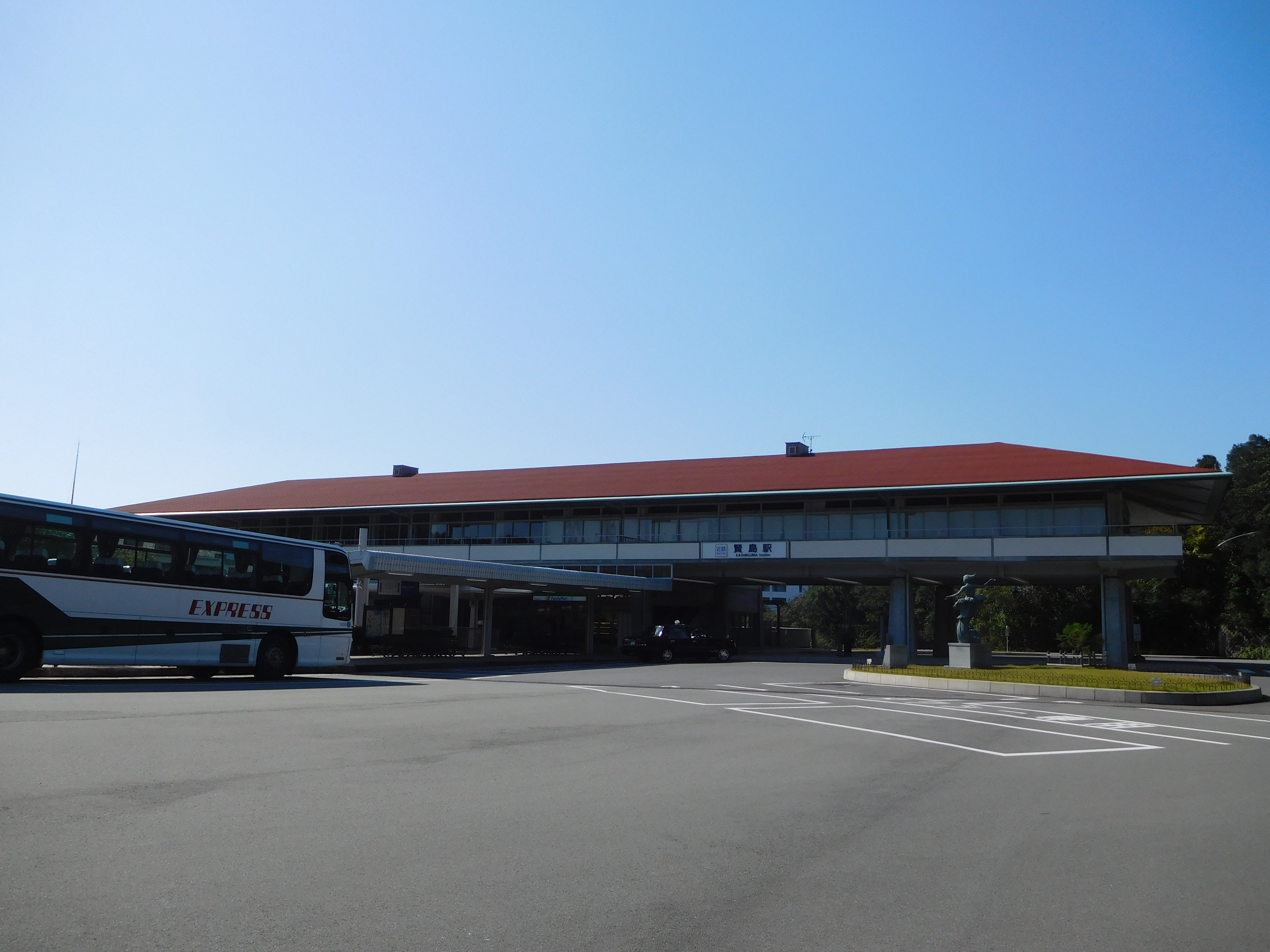 This is North exit of Kintetsu Kashikojima Station in Shima, Mie, Japan.